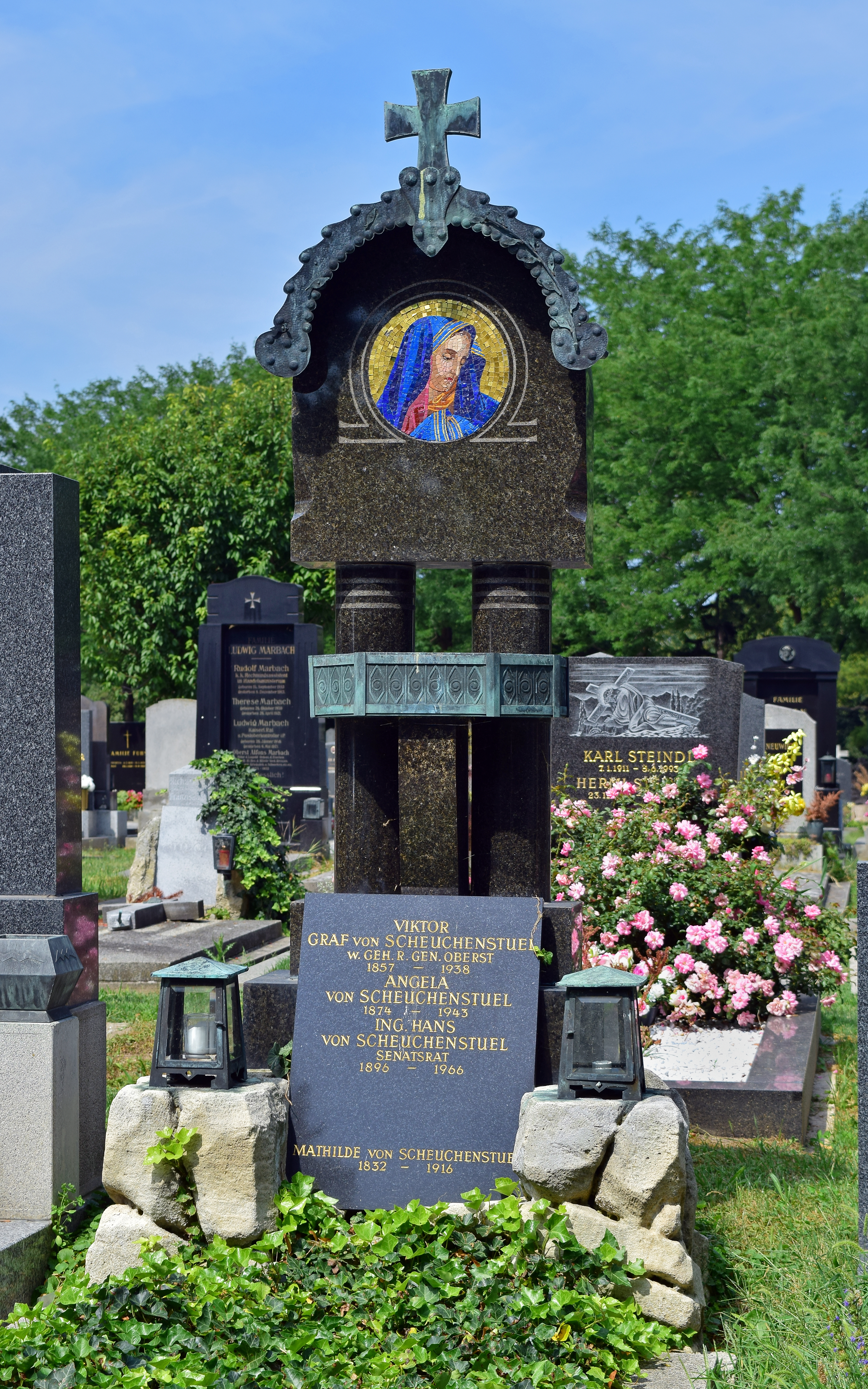 Grave of honor of Viktor Graf von Scheuchenstuel at the Wiener Zentralfriedhof